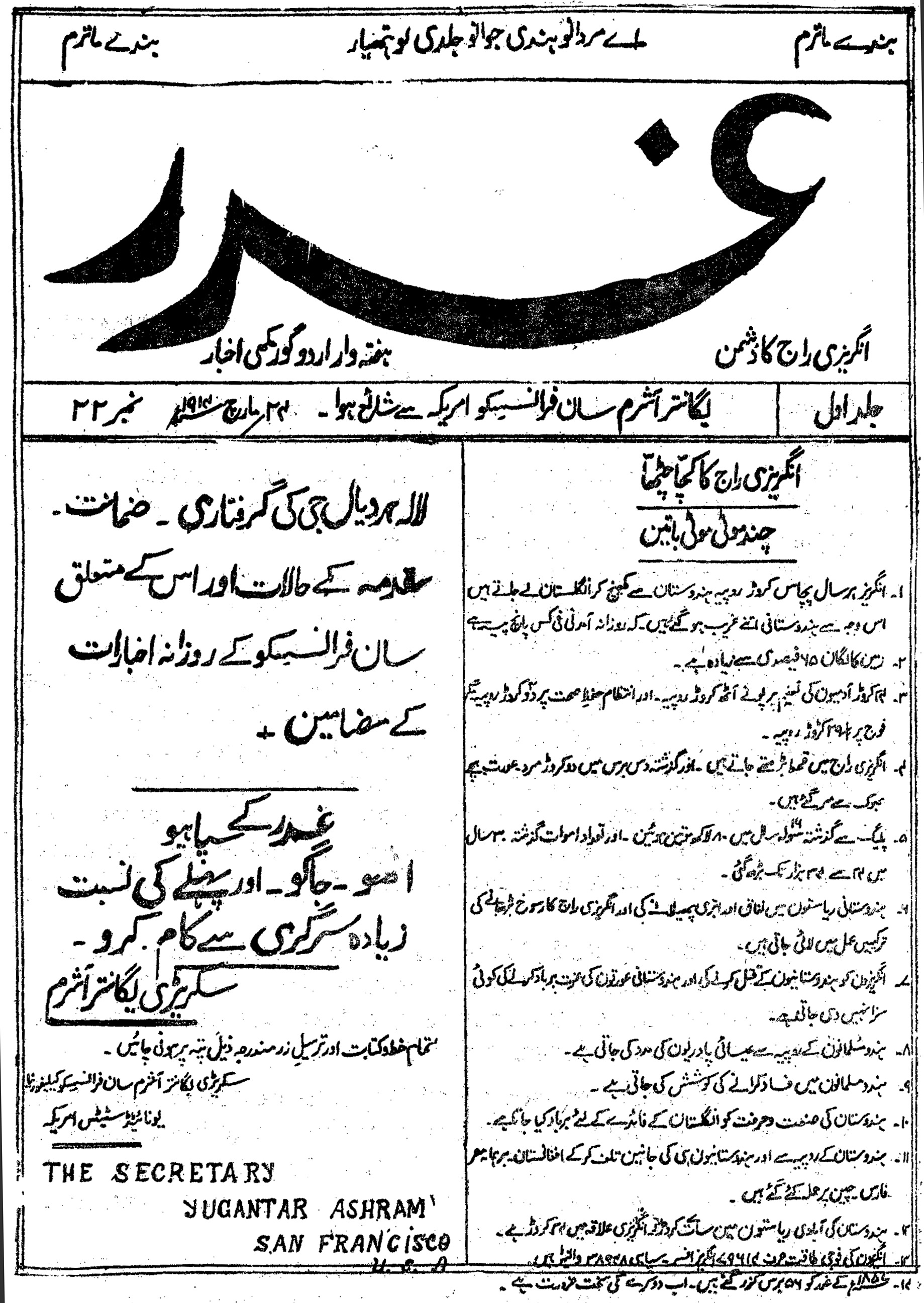 Ghadar (Urdu) Vol. 1, No. 22, March 24, 1914. It details the arrest of Lala Hardayal on March 25, so must have been printed a few days later.